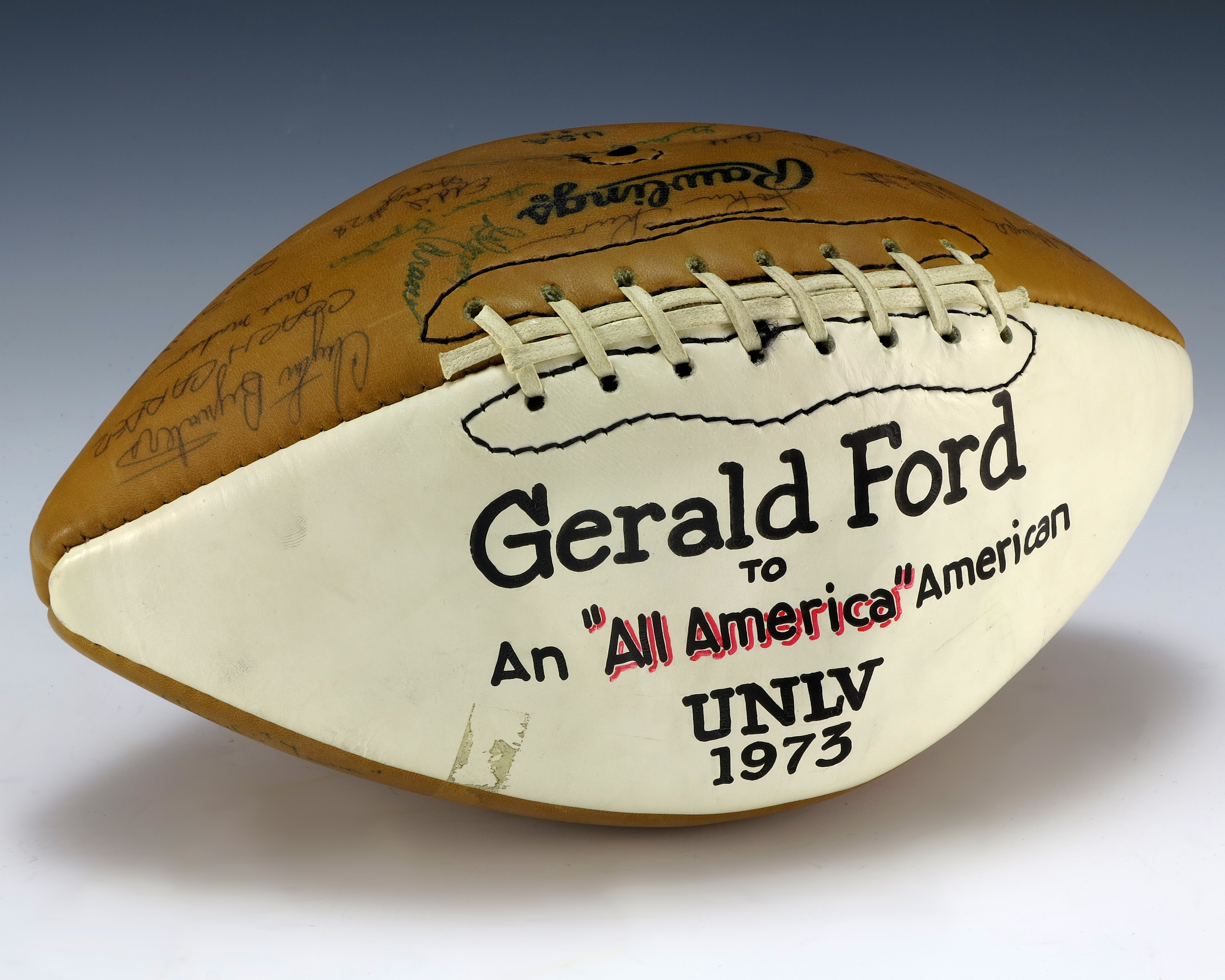 A football that features the signatures of the 1973 UNLV Runnin’ Rebels football team. It also features an inscription to Gerald R. Ford on the white panel of the football.